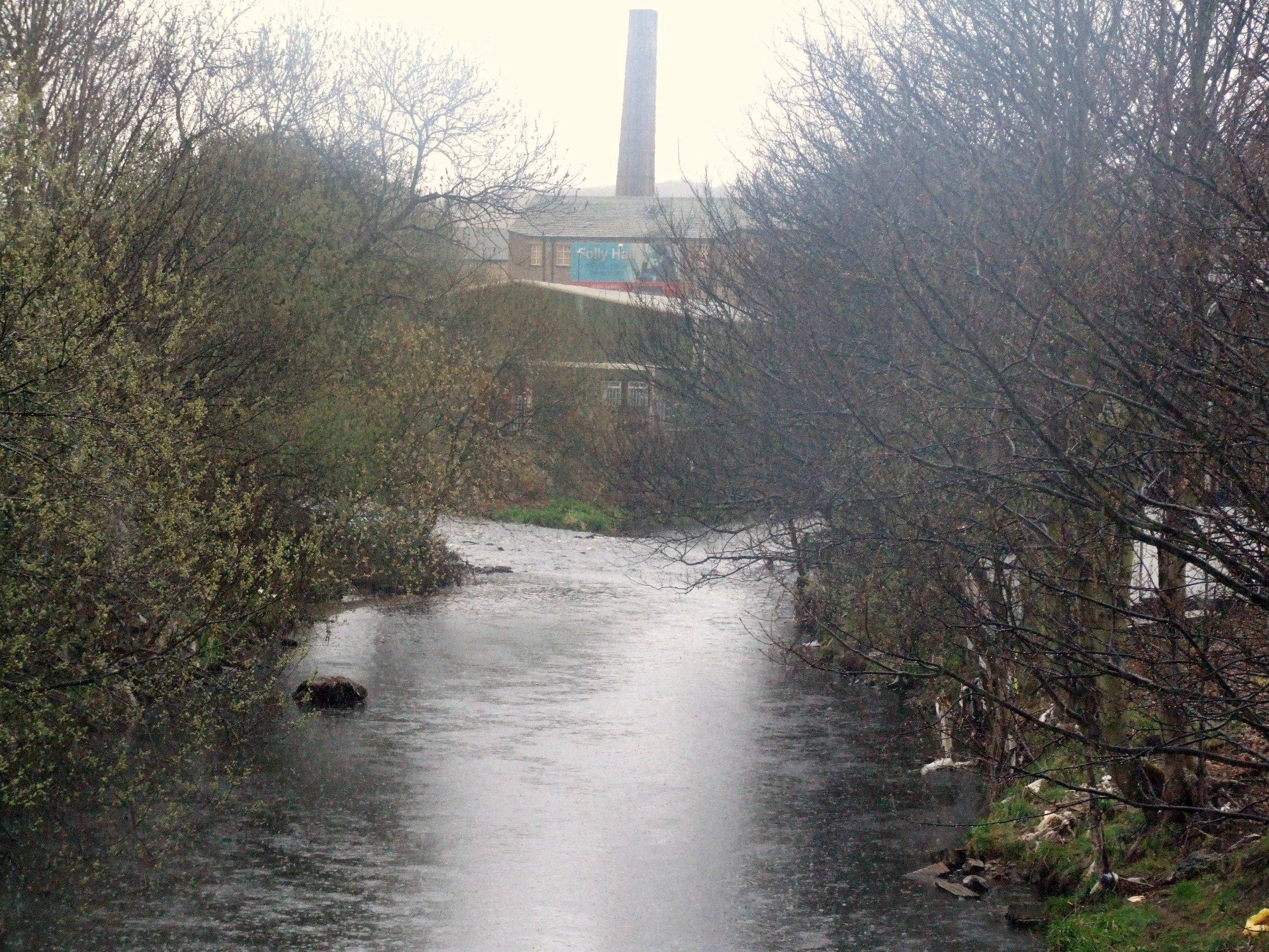 Merger of the River Holme into the River Colne at Huddersfield, West Yorkshire, England